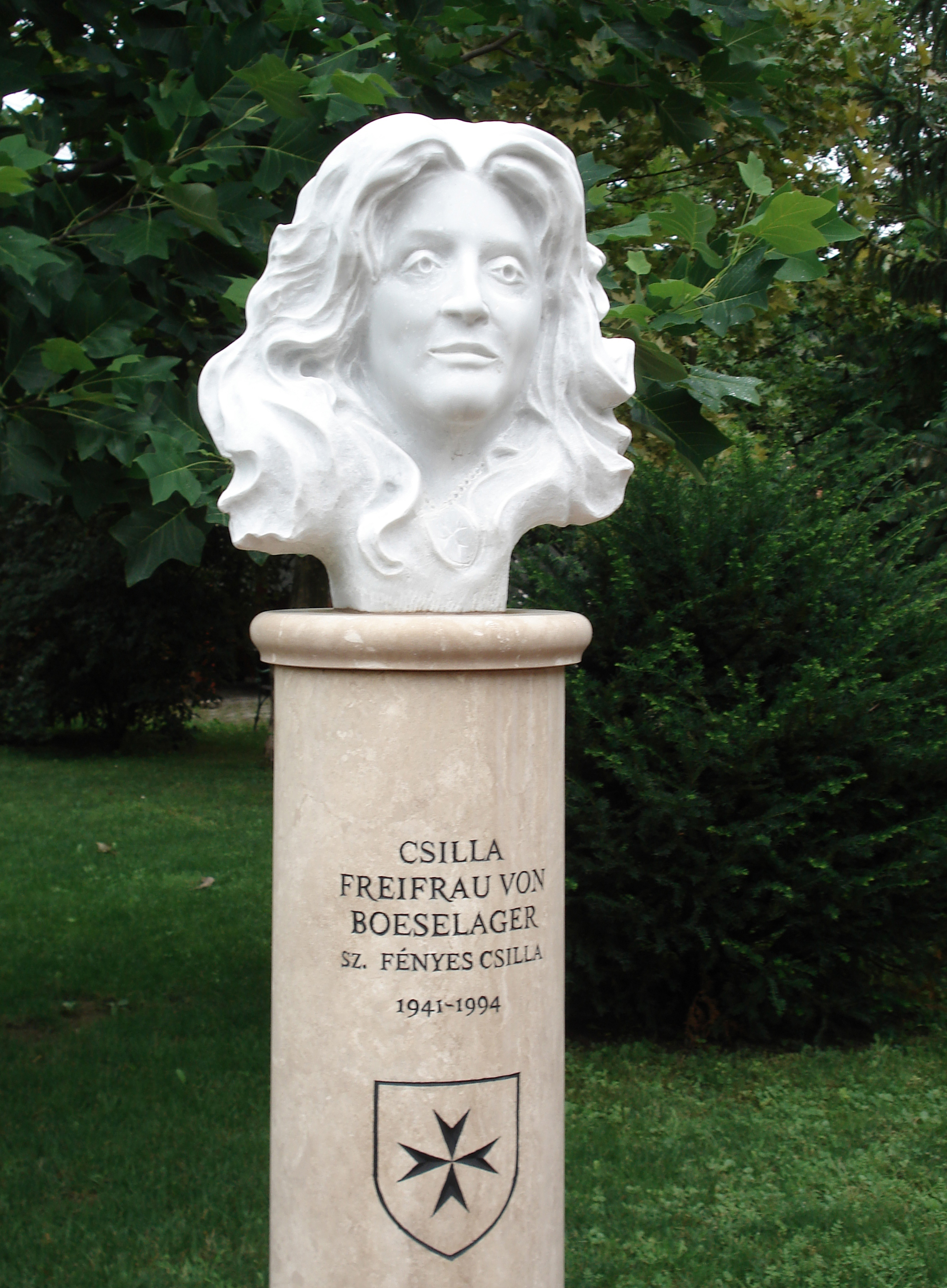 Marble bust of Csilla von Boeselager by Attila Csák, 2011 works (replica after Miklós Melocco 1992 bronze work). Maltese Charity Service, Miskolc, Diósgyőr, Köln utca 2.